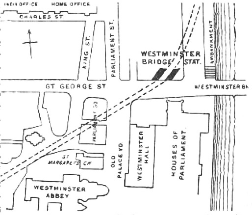 1888 plan of the area around Parliament Square in London, including Westminster underground station.